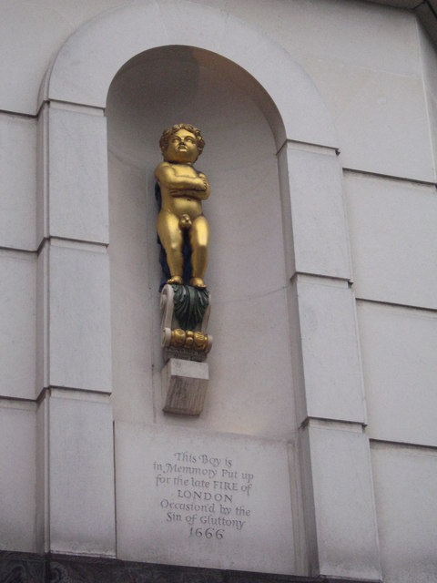 The Golden Boy of Pye Corner, near St Bart's Hospital on the corner of Giltspur Street with Cock Lane, was erected where the Great Fire of London stopped. Note: Below the statue an inscription reads, "This Boy is in Memory Put up for the late Fire of London, Ocassion'd by the Sin of Gluttony, 1666." Another inscription at the base of the building reads: "The Boy at Pye Corner was erected to commemorate the staying of the Great Fire which beginning at Pudding Lane was ascribed to the sin of gluttony when not attributed to the Papists as on the Monument and the Boy was made prodigiously fat to enforce the moral. He was originally built into the front of a public house called The Fortune of War which used to occupy this site and was pulled down in 1910." It continues: "The Fortune of War was the chief house of call north of the river for resurrectionists in body snatching days years ago. The landlord used to show the room where on benches round the walls the bodies were placed with the snatchers' names waiting till the surgeons at St Bartholomew's could run round and appraise them".